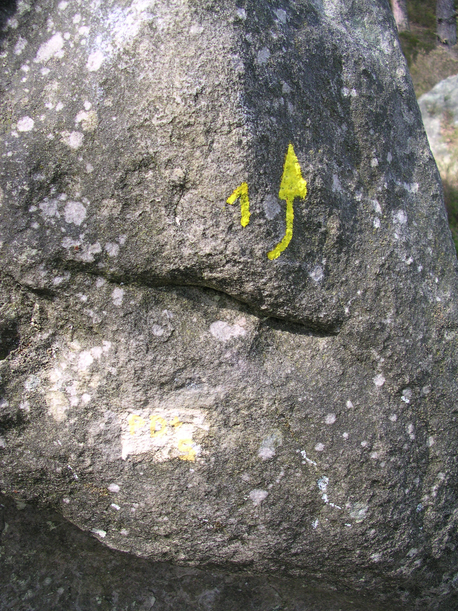 Starting point of the yellow route at the 91.1. (Fontainebleau forest) Auteur/Author : Romary mai/May 2006